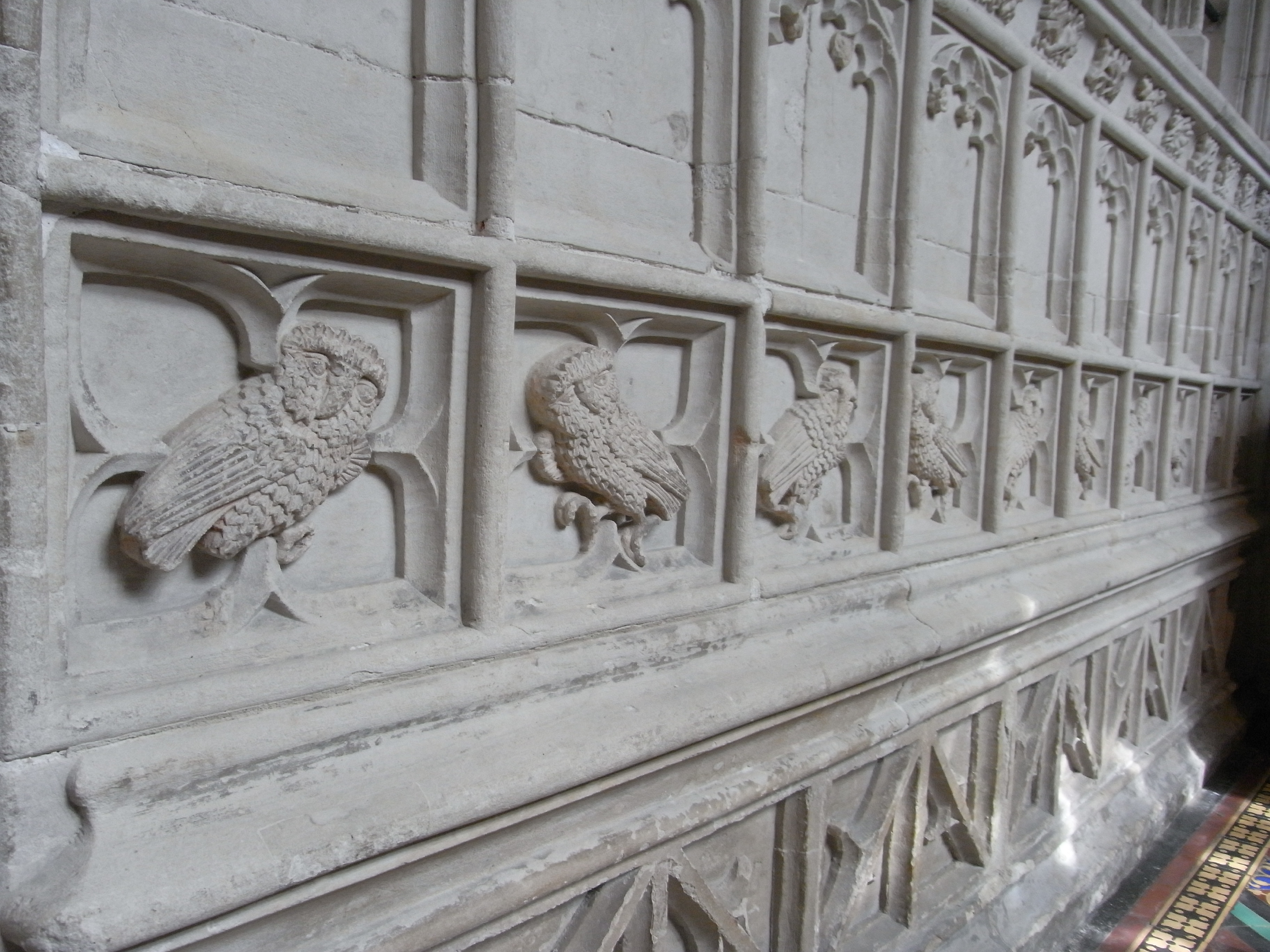 Sculpted rebus of owls on wall of chantry chapel of Hugh Oldham (d.1519), Bishop of Exeter